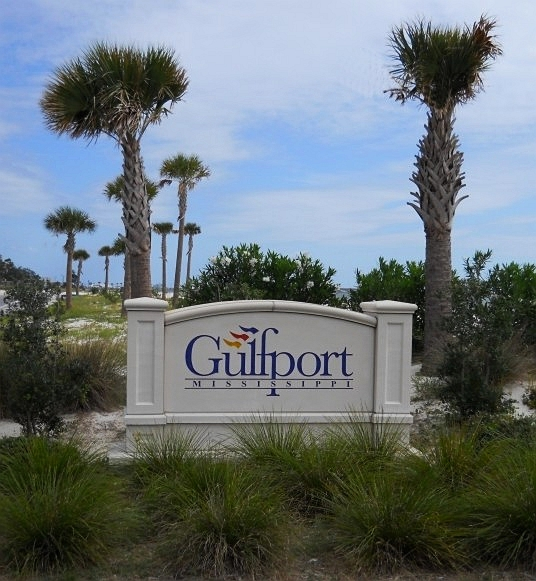 Highway sign along U.S. Route 90 designating city limits of Gulfport, Mississippi USA